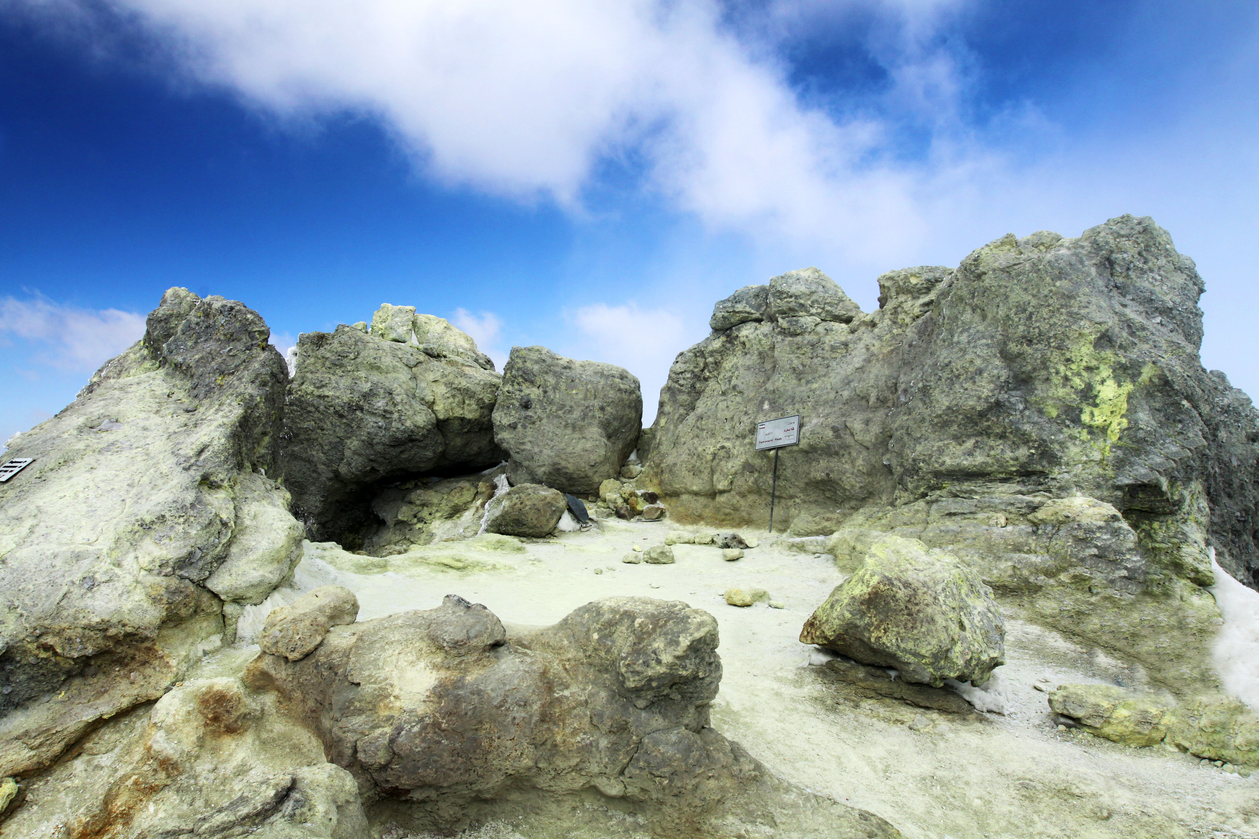 Damavand Summit (5610m), The highest point in Iran country and the Middle East and the Mazandaran Province